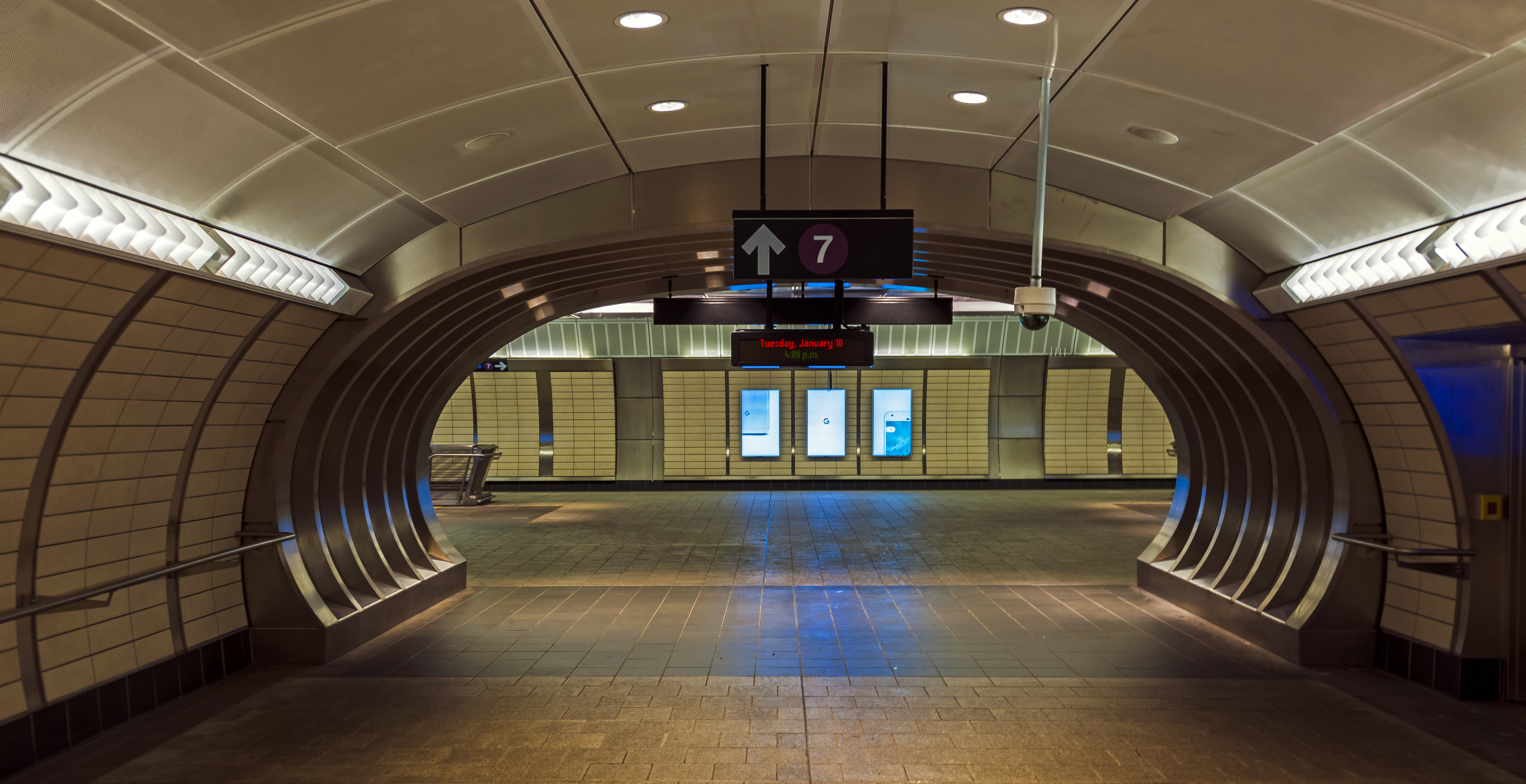 Archway at the bottom of the escalators to the mezzanine level at the 34th Street–Hudson Yards subway station in Manhattan